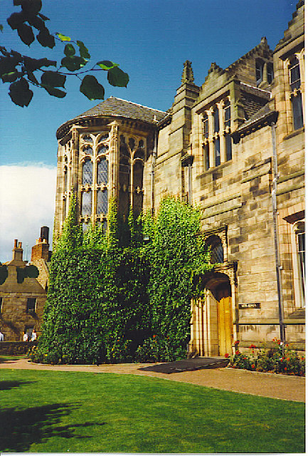 New King's, Old Aberdeen. Part of Aberdeen University.